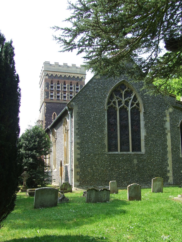 SS Peter and Paul parish church, Foxearth, Essex, seen from the east